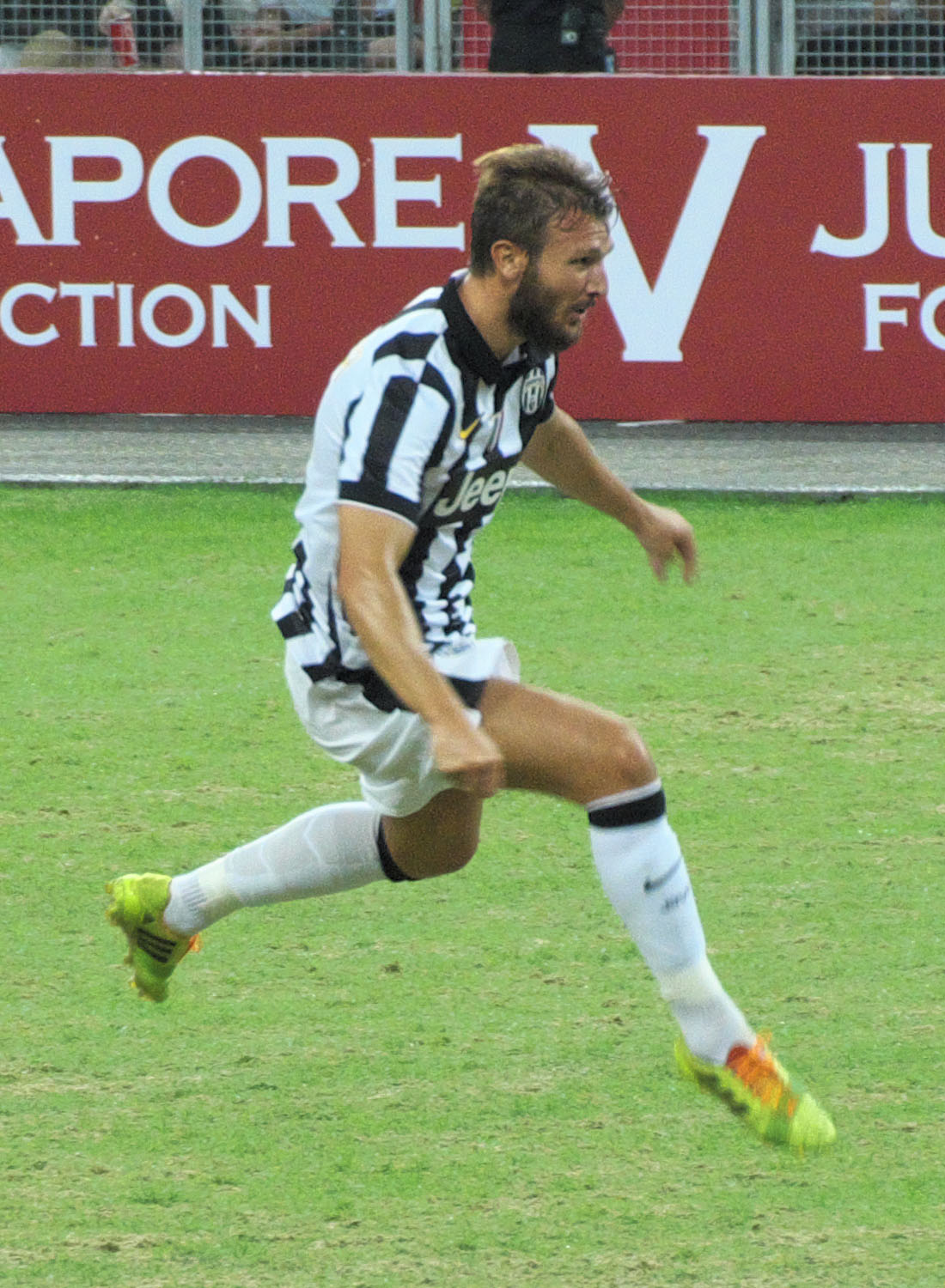 Singapore Selection vs Juventus @ National Stadium. Italian defender (right back) Marco Motta in action with Bianconeri.